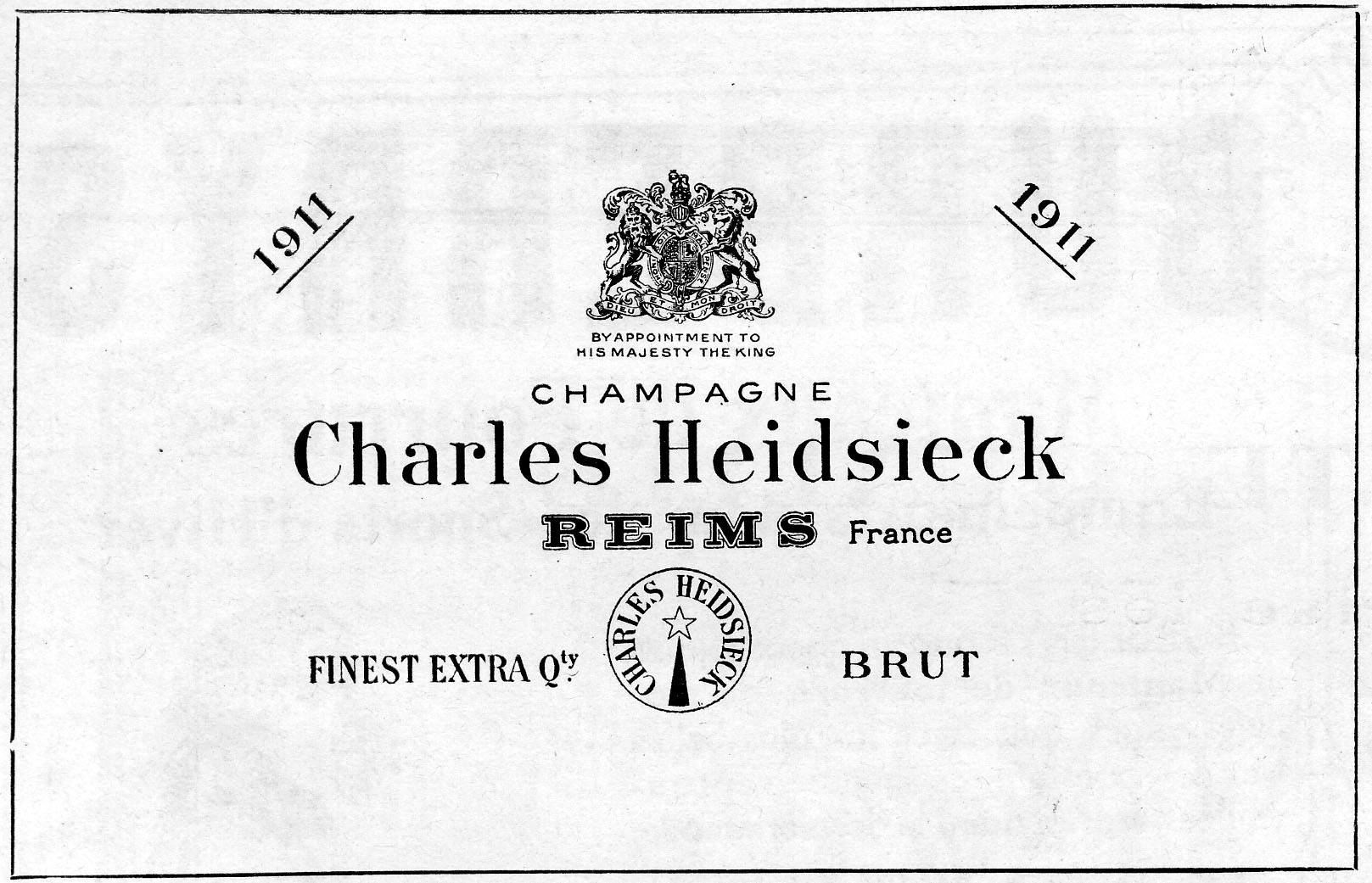 Charles Heidsieck advertisement of 1923